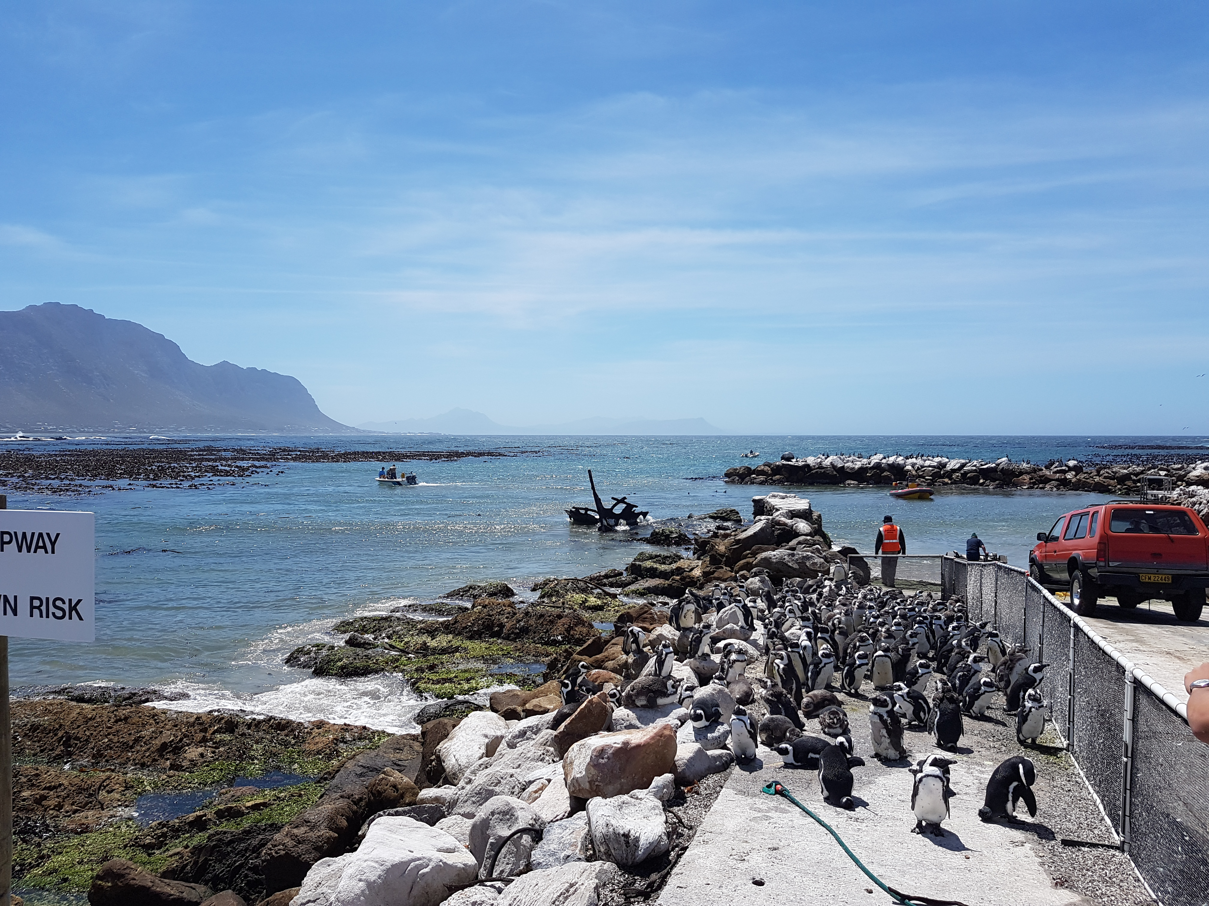 Betty's Bay 2016